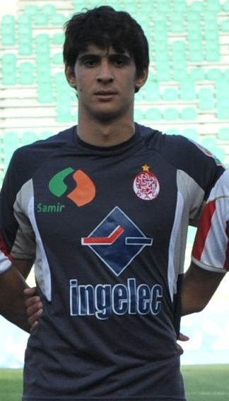 Yassine Bounou, 2012-05-09